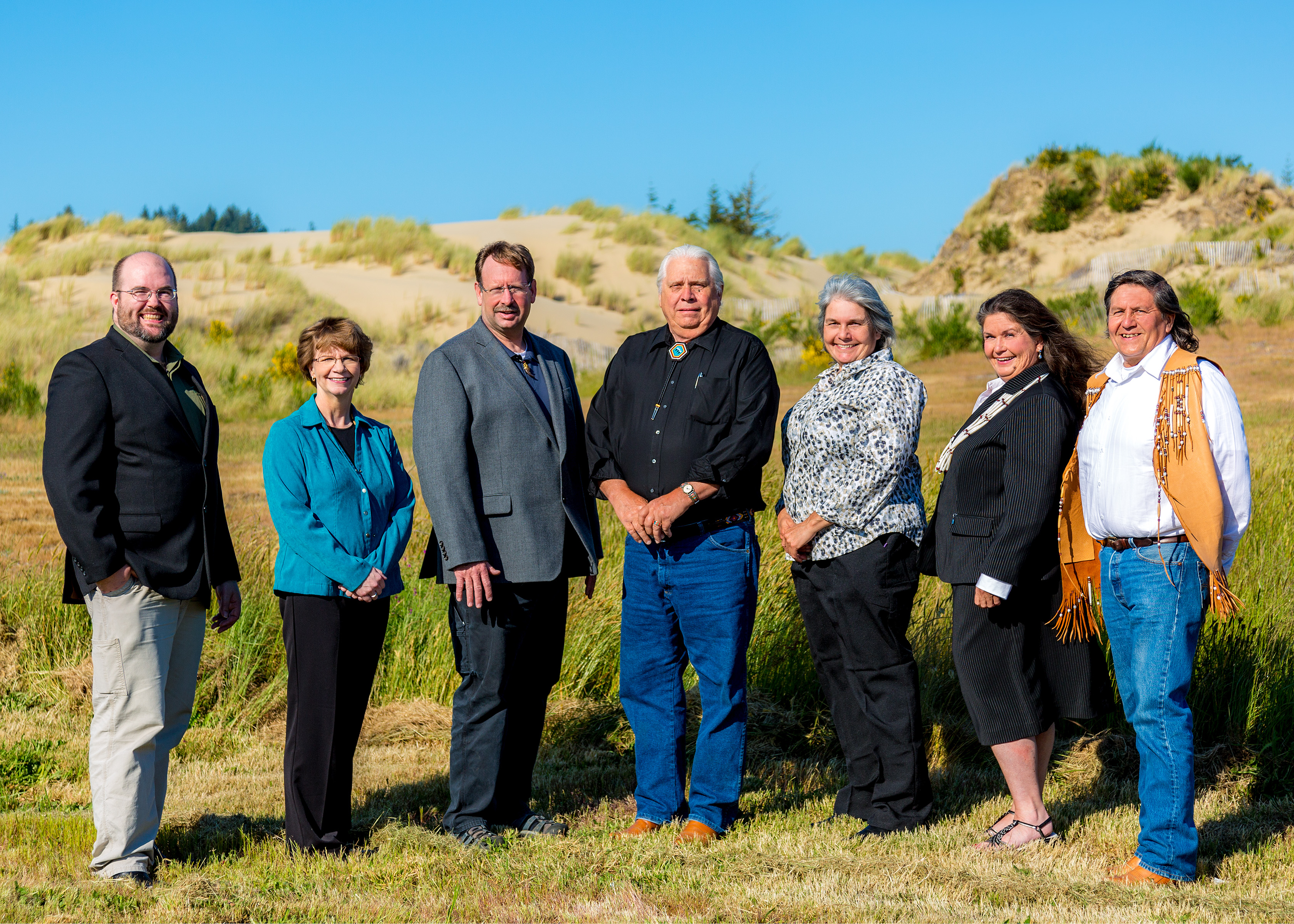 Group Photo of the Council Members